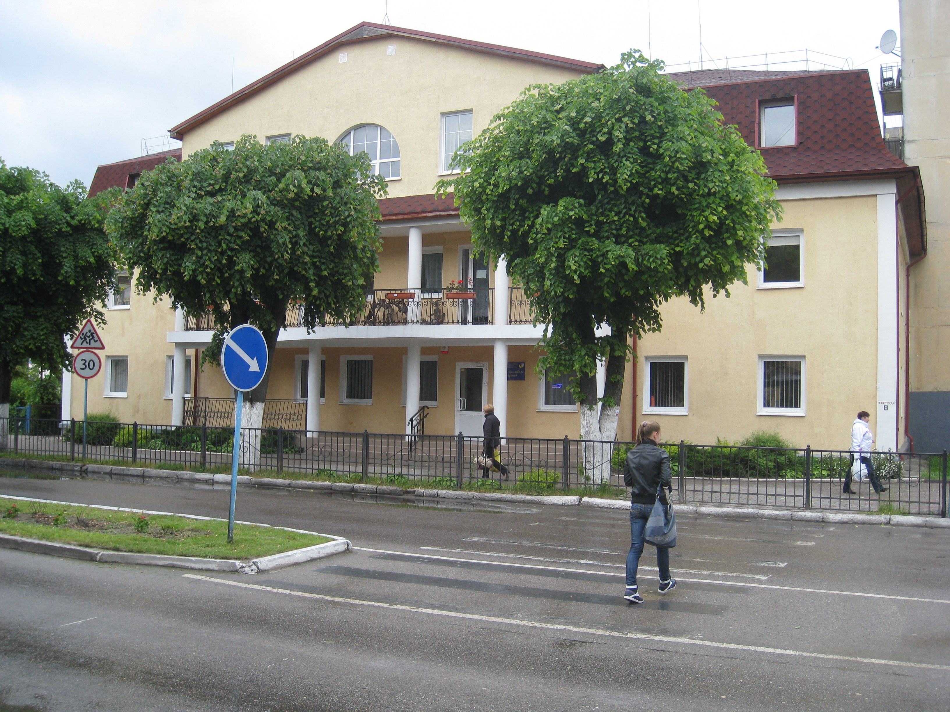 Music school